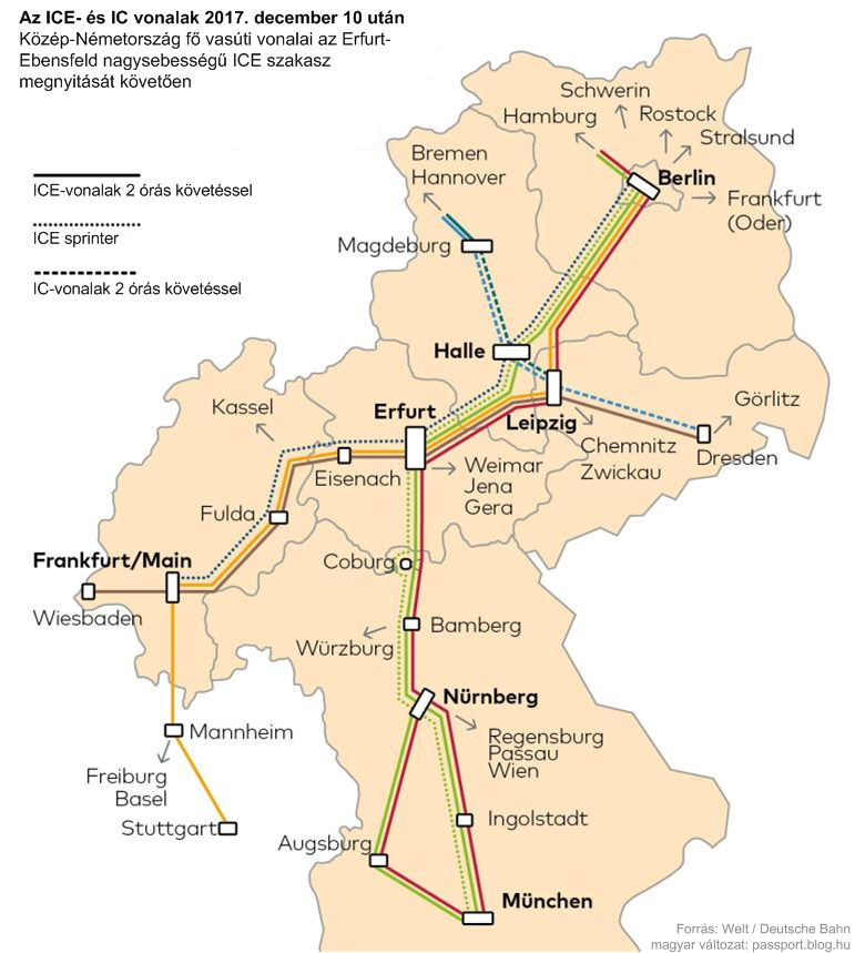 VDE8.1